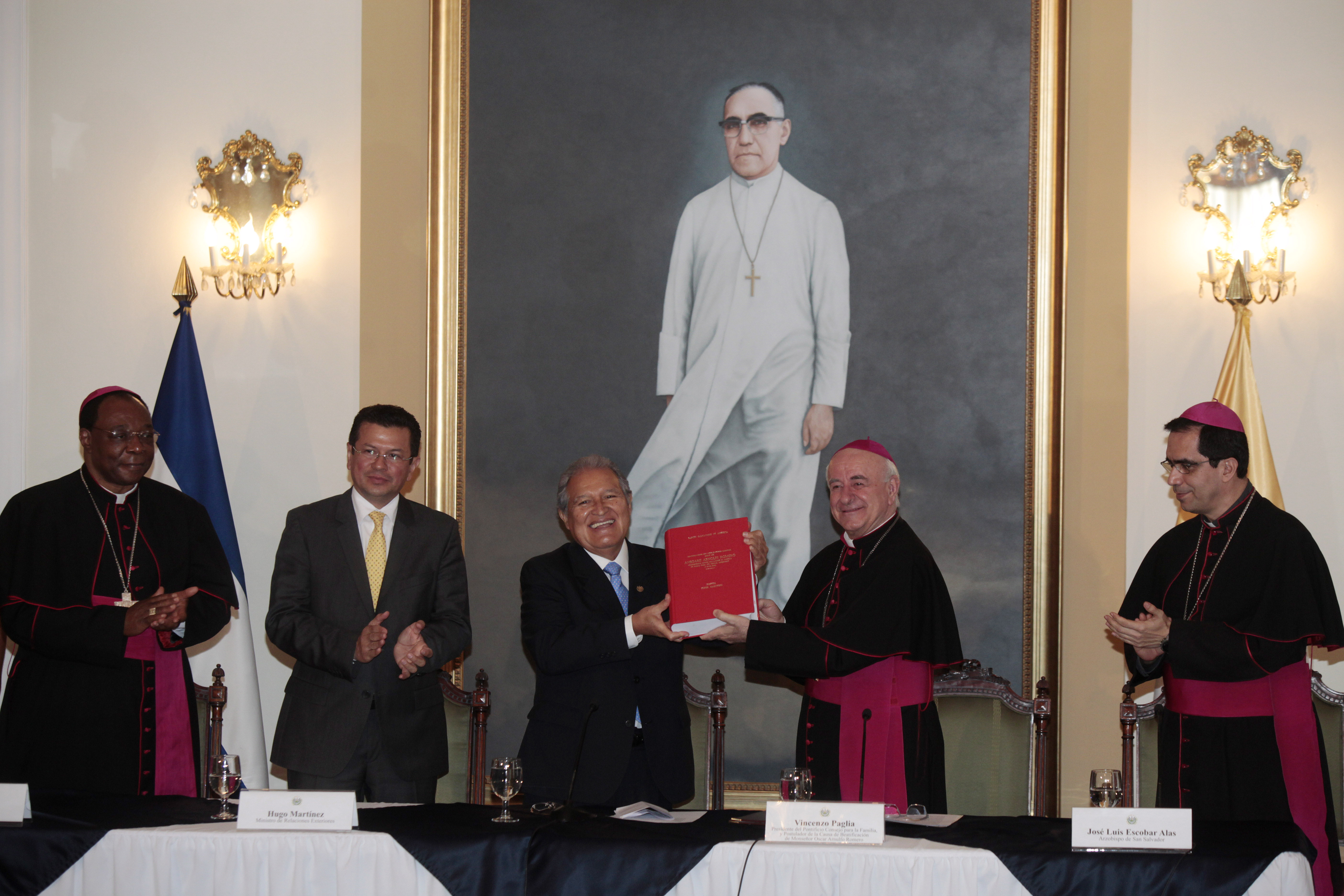 DE IZQ. A DER.: NUNCIO APOSTOLICO,LEON KALENGA; HUGO MARTINEZ ,CANCILLER DE EL SALVADOR ; SALVADOR SANCHEZ CEREN , PRESIDENTE DE EL SALVADOR ;MONSEÑOR VINCENZO PAGLIA Y MONSEÑOR JOSE LUIS ESCOBAR ALAS DURANTE LA CONFERENCIA DE PRENSA. ENTREGA EL LIBRO DE LA CAUSA DE MONSEÑOR ROMERO EN EL VATICANO.